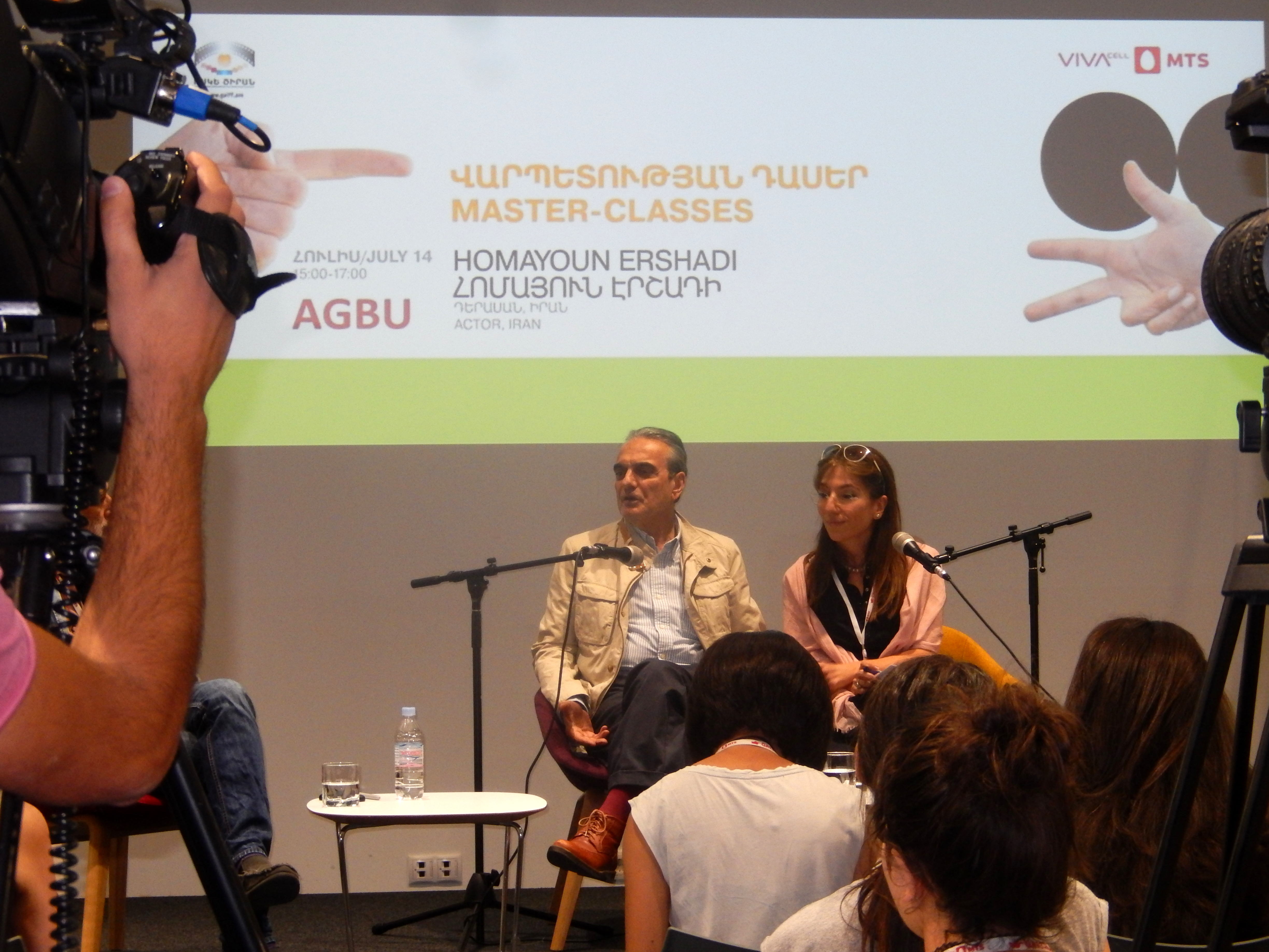 Master Class with Homayoun Ershadi in Yerevan during Golden Apricot Yerevan International Film Festival